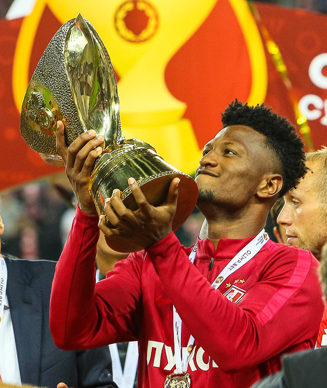 Суперкубок России 2017